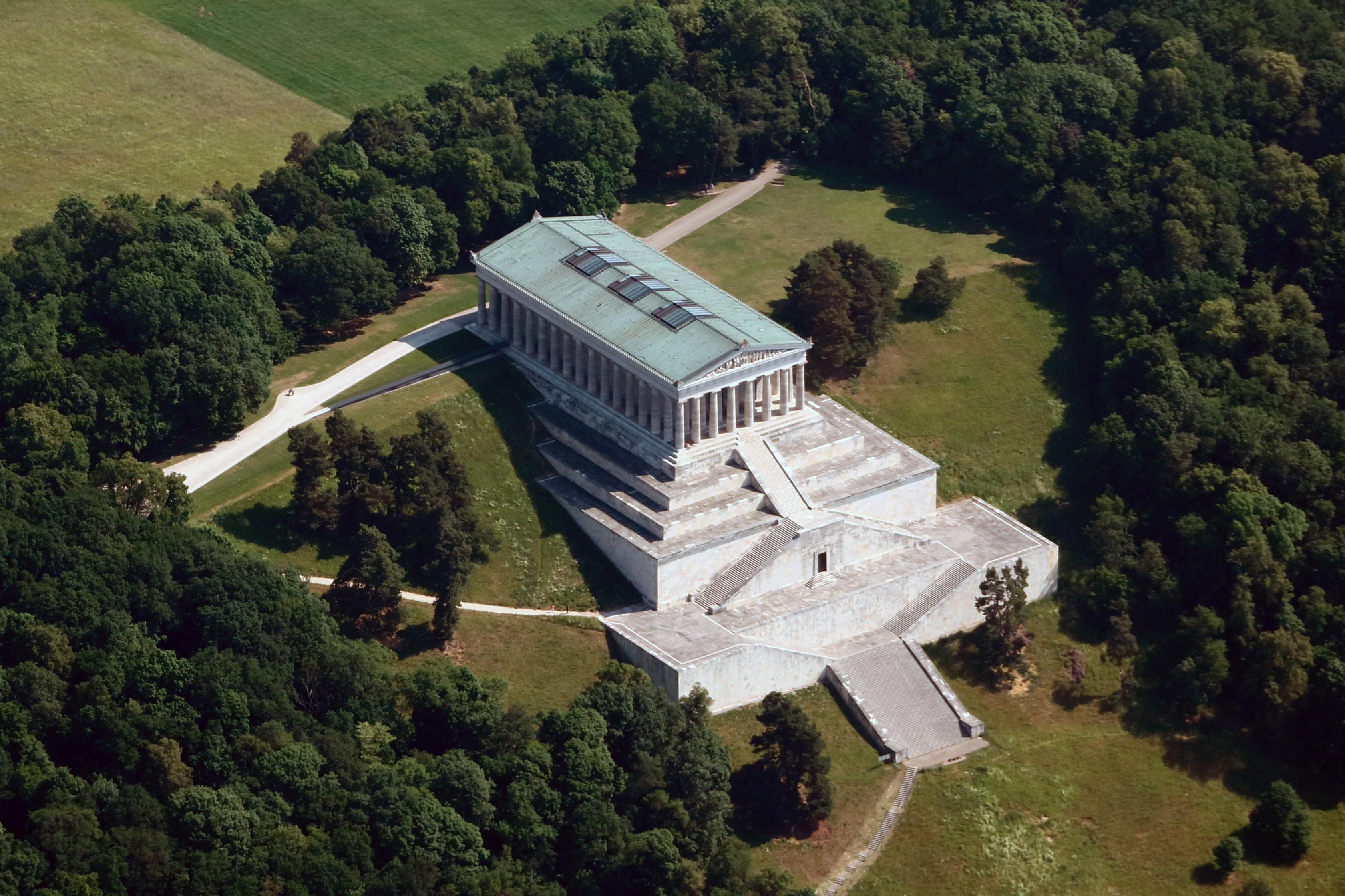 Walhalla, Aerial View from 5000 ft altitude